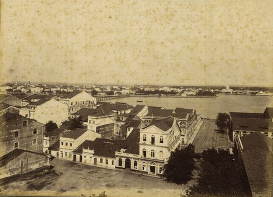 "The Thereza Christina Maria collection is composed of 21,742 photos assembled by Emperor Pedro II (1825-91) throughout his life and donated by him to the National Library of Brazil. The collection covers a wide variety of subjects. It documents the achievements of Brazil and Brazilians in the 19th century and also includes many photographs of Europe, Africa, and North America. The port city of Recife, which appears in this photograph, was one of the earliest settlements in Brazil. Established in the late 1500s by the Portuguese, it was under Dutch control for part of the 17th century. Early Recife boasted a sizable Jewish population and was also an entry point for many African slaves. The influence of this mix of cultures on Recife’s character continued into the 19th century, when this picture was taken by Mortiz Lamberg, who worked in the studio of Alberto Henschel. The German-born Henschel was one of Brazil’s most prolific portrait photographers. Lamberg later became a respected photographer in his own right, publishing the photography book Brasilien."